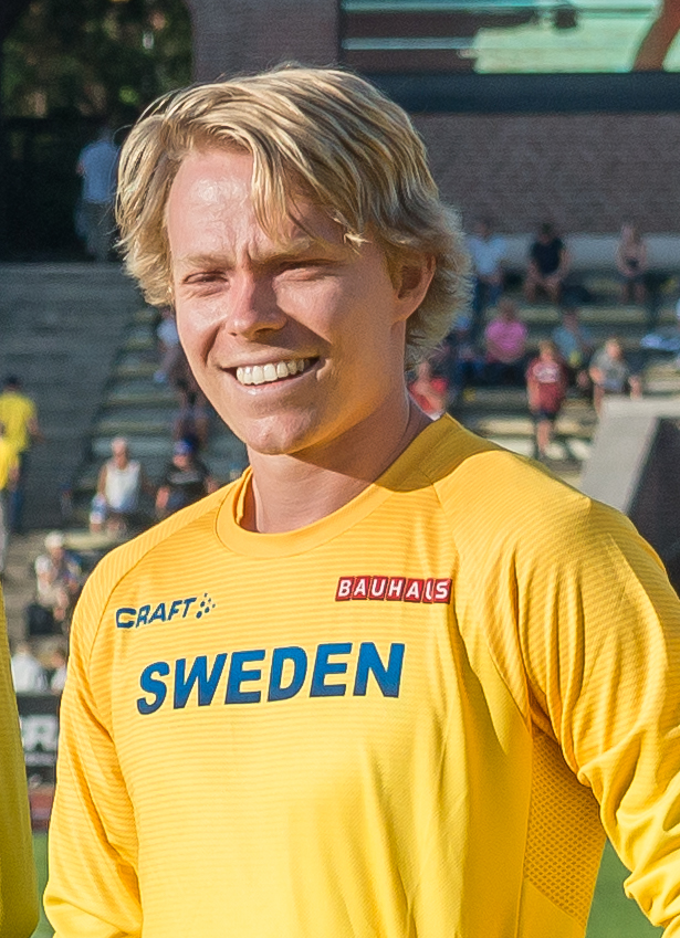 Carl Sténson during the Finland-Sweden athletics international 2019 at the Stockholm Stadium in August 2019.